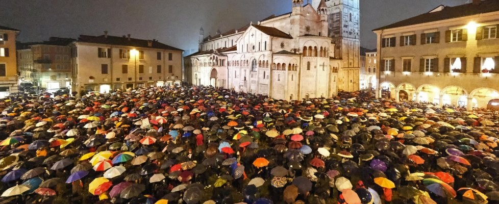 7000 sardine a Modena